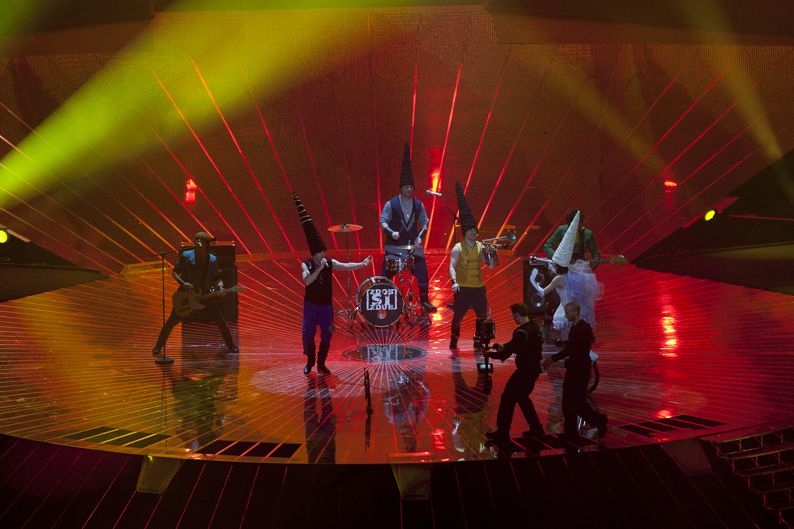 Zdob şi Zdub from Moldova performing "So Lucky" at Eurovision Song Contest 2011 in Düsseldorf